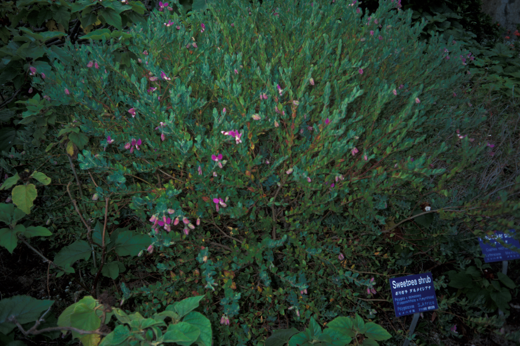 Polygala x dalmaisiana (habit). Location: Maui, Enchanting Floral Gardens of Kula